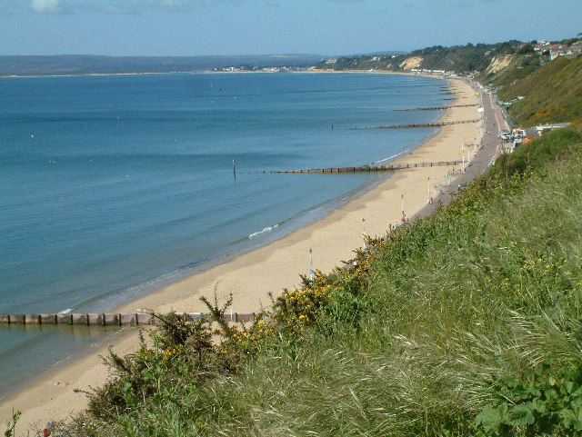 View towards Sandbanks and Poole Bay from Bournemouth